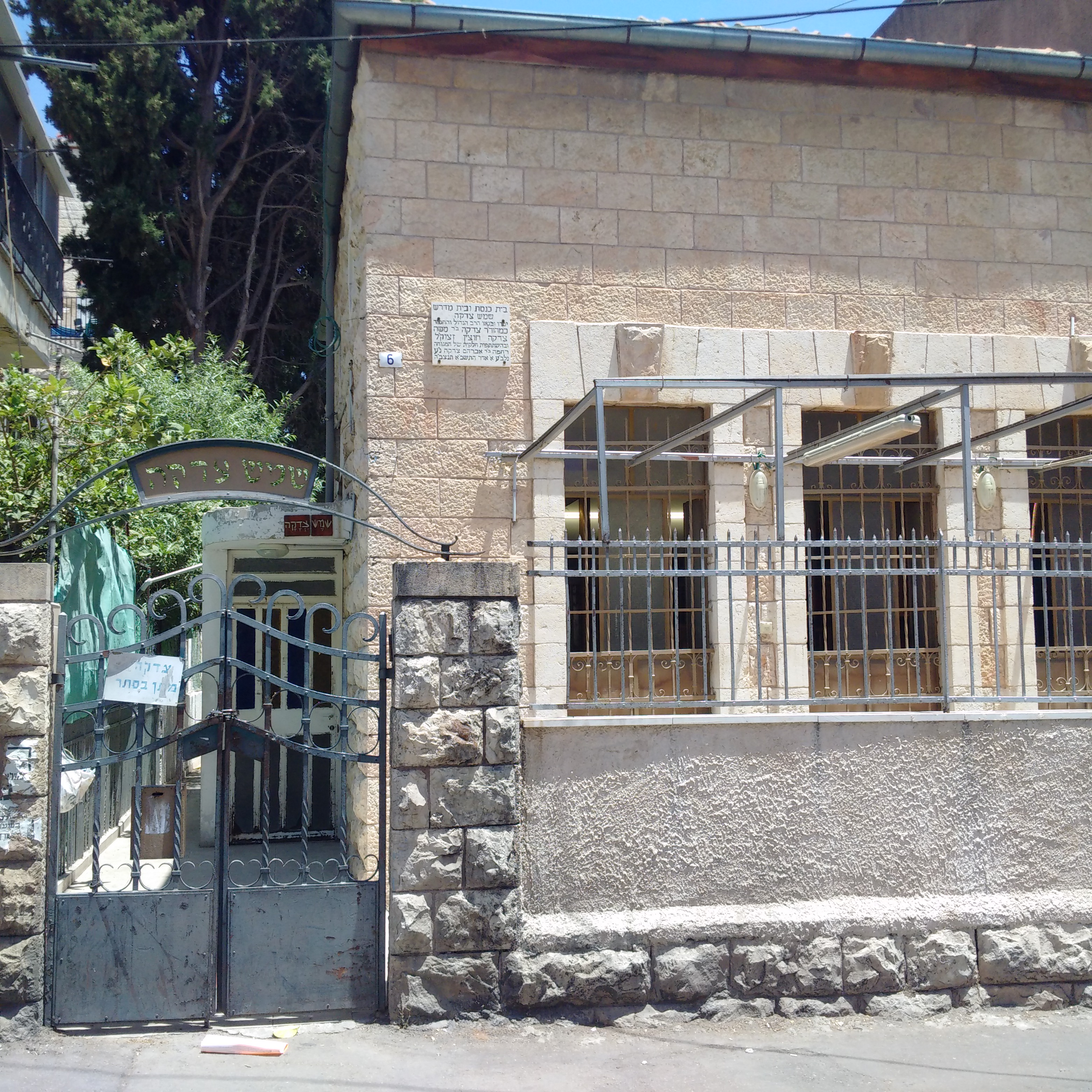 The Shemesh Sedaqa synagogue in 2016